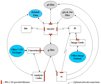 Diagram of BRL-CAD data flow structure.